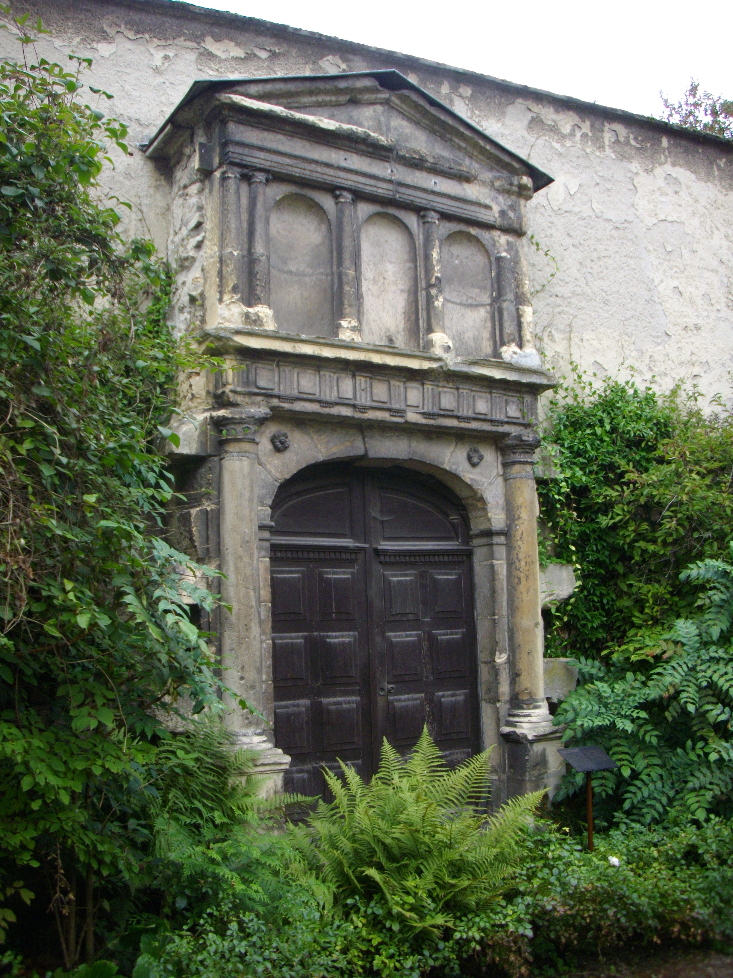 Museum hotel Le Vergeur in Reims (Marne, France). Portal of the cloister of former Saint Peter the Elder church, in the courtyard .